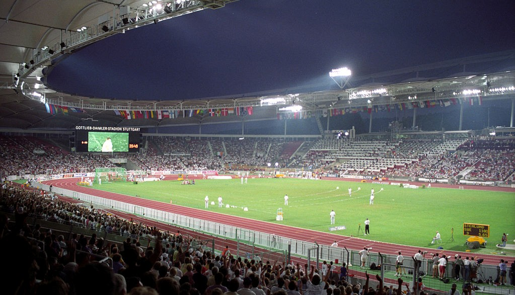 Overview of Gottlieb-Daimler Stadium, in Stuttgart, during the 1993 World Championships in Athletics.